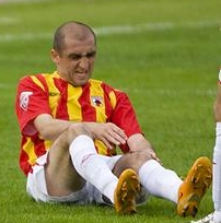 Tamerlan Varziev in action for FC Alania